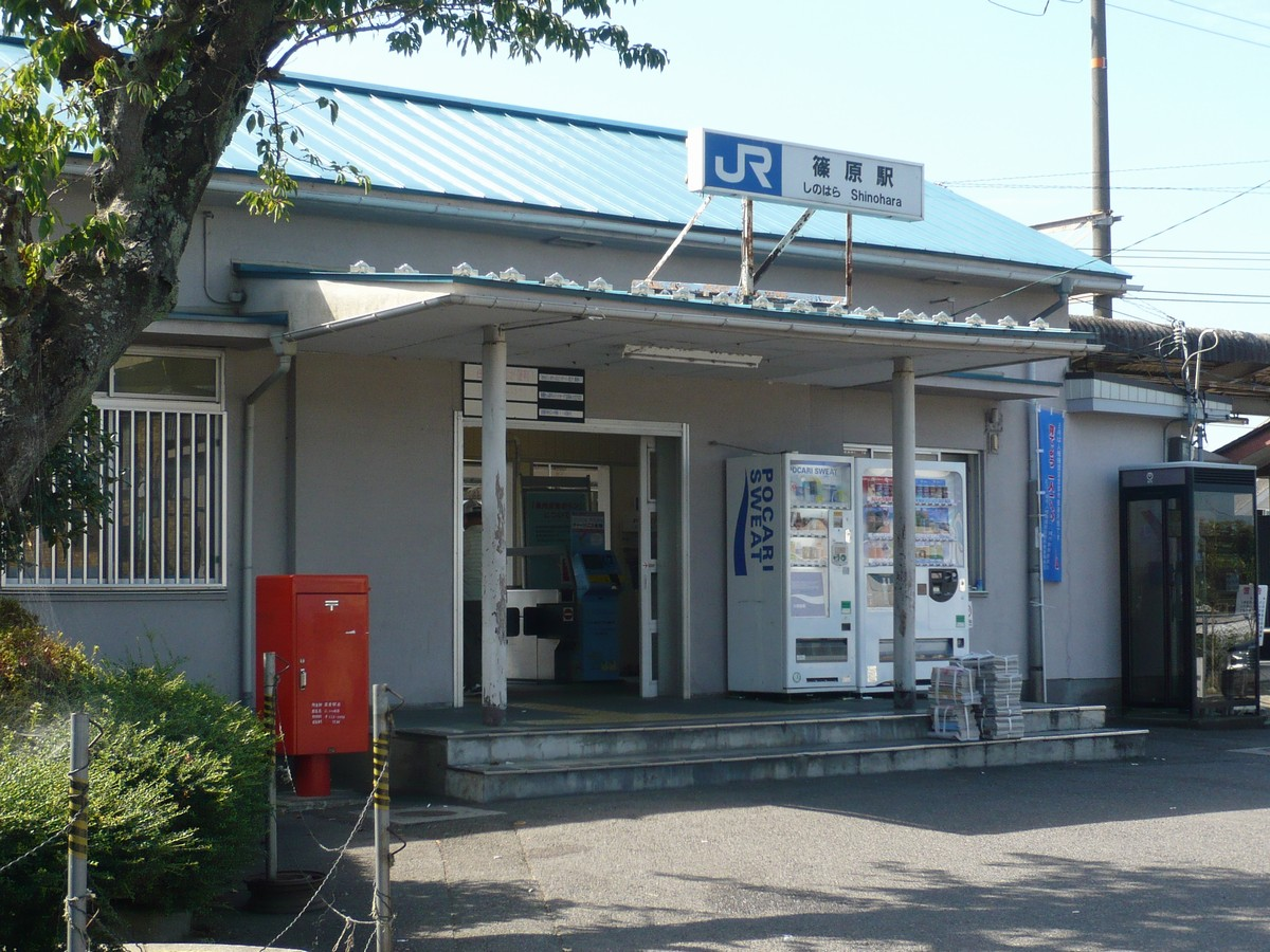 Shinohara Station in Shiga Prefecture, Japan